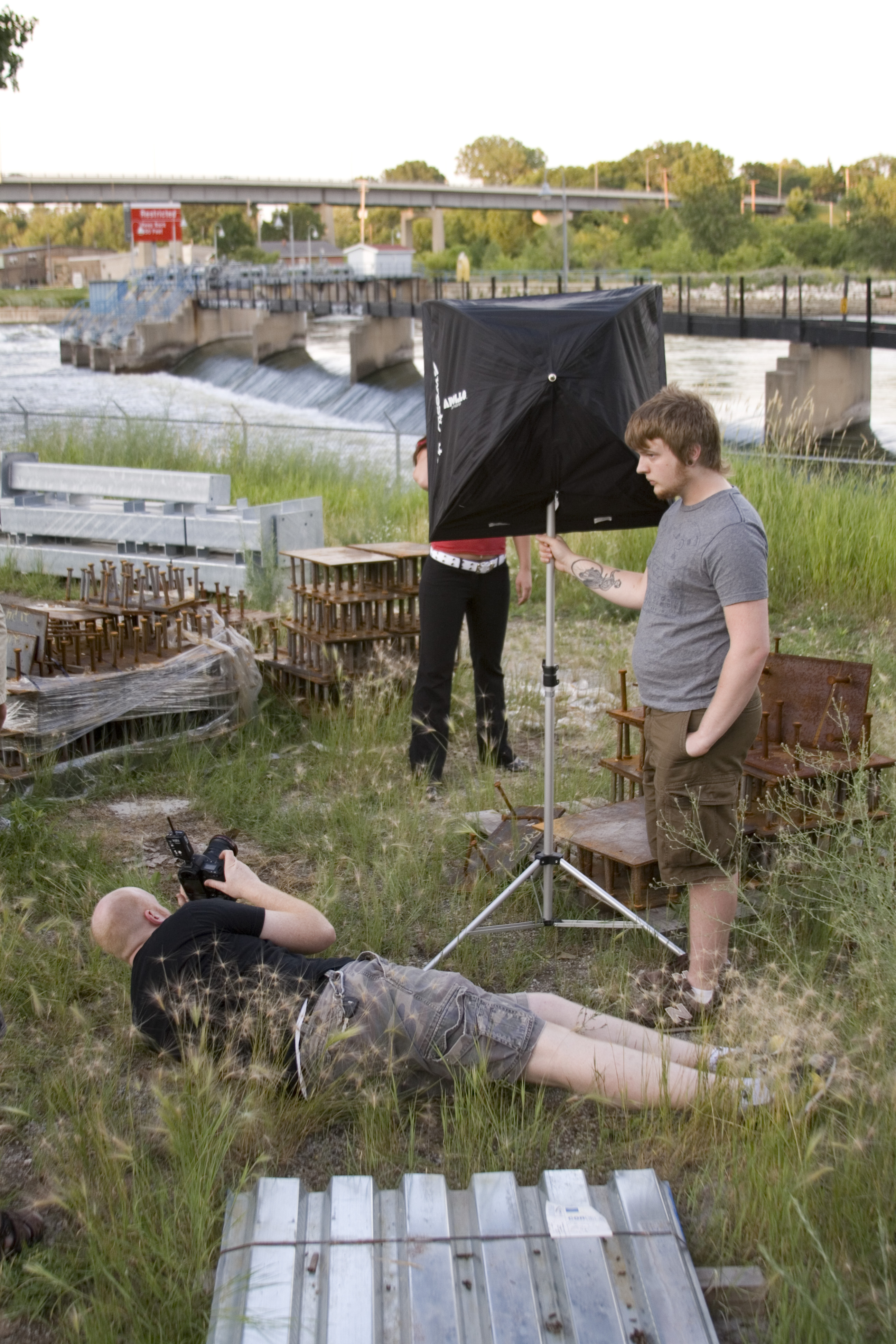 A photographer photographing a model, with a softbox for lighting